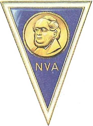 Graduates badge for individuals, received education at the “Section military transportation and communications" at the “High school of traffic Friedrich-List“ of the GDR.